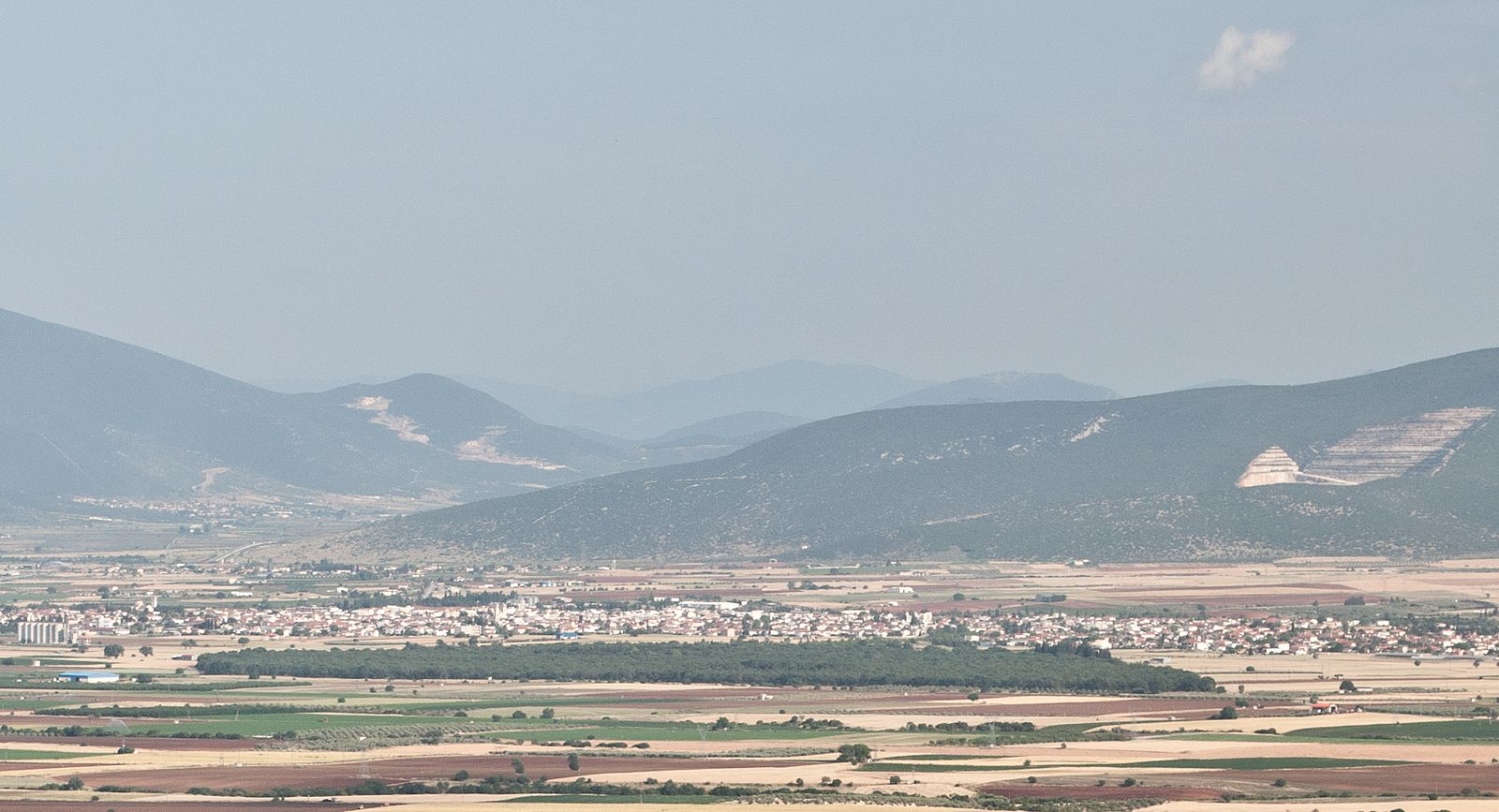 View of Kouri forest from N-W, Almyros, Magnesia, Greece